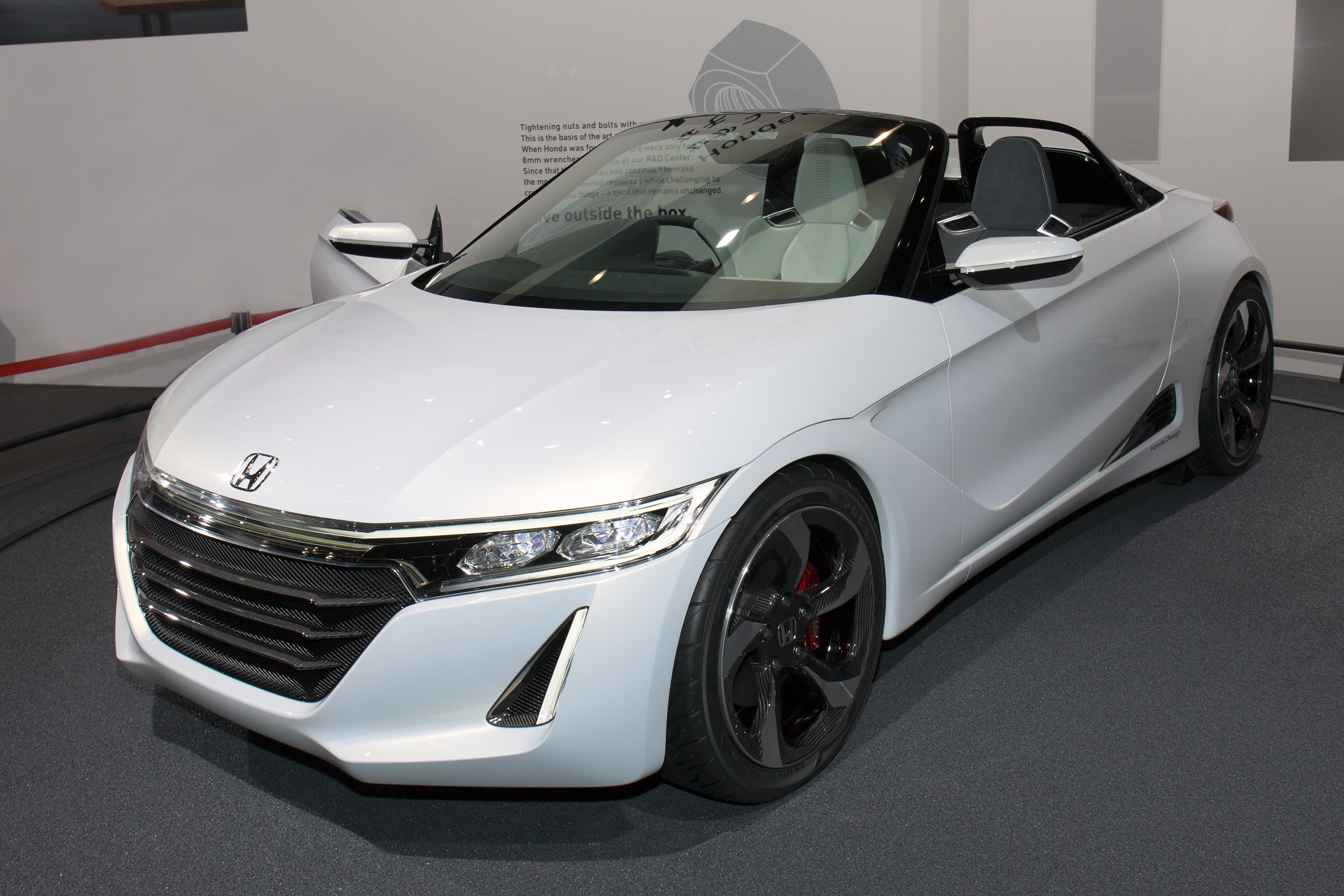 Tokyo Motor Show 2013: Honda S660 Concept